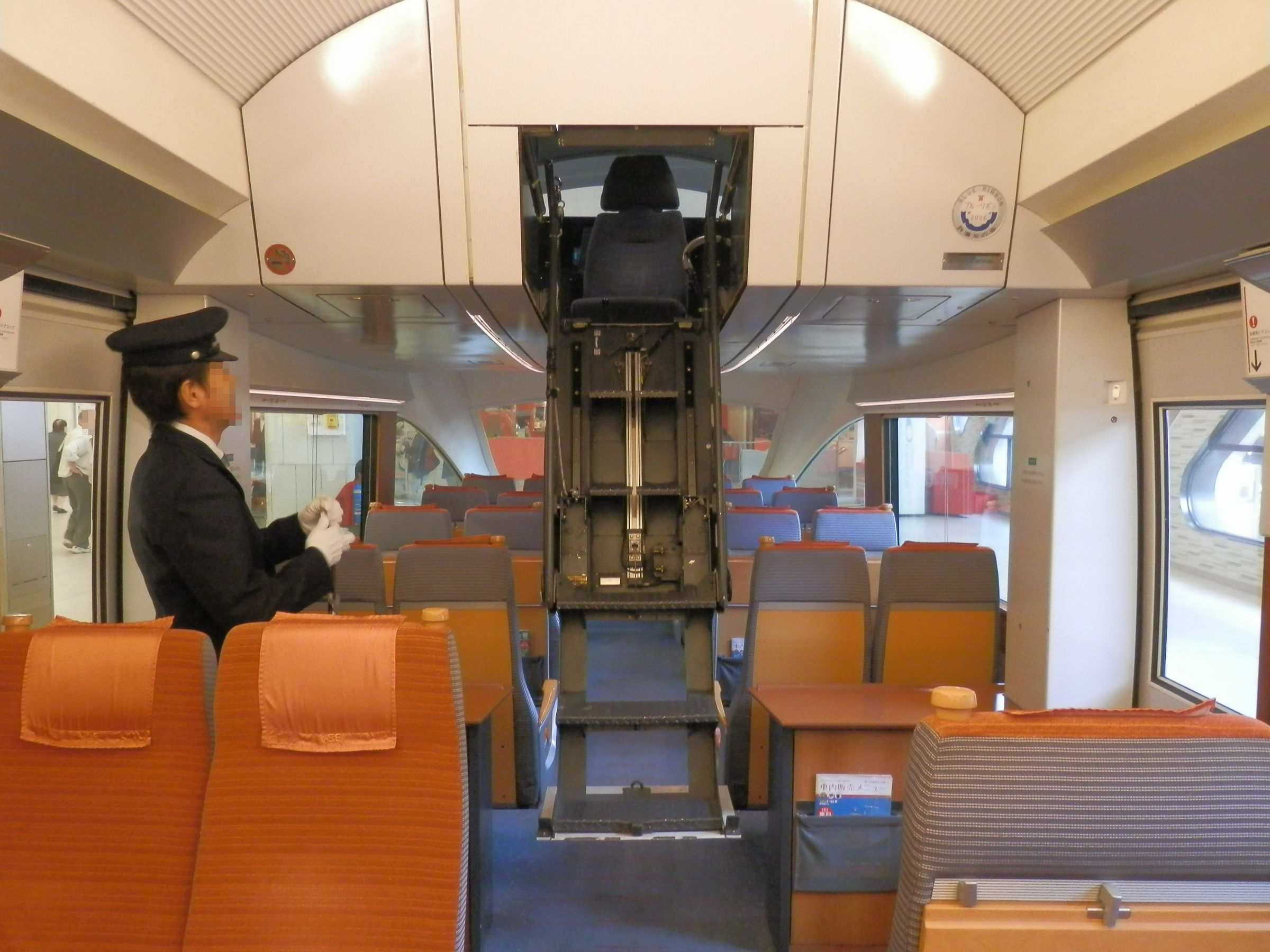 Interior of an Odakyu 50000 series (VSE) "Romancecar" EMU showing the retracting ladder used to access the driver's cab situated above the passenger compartment